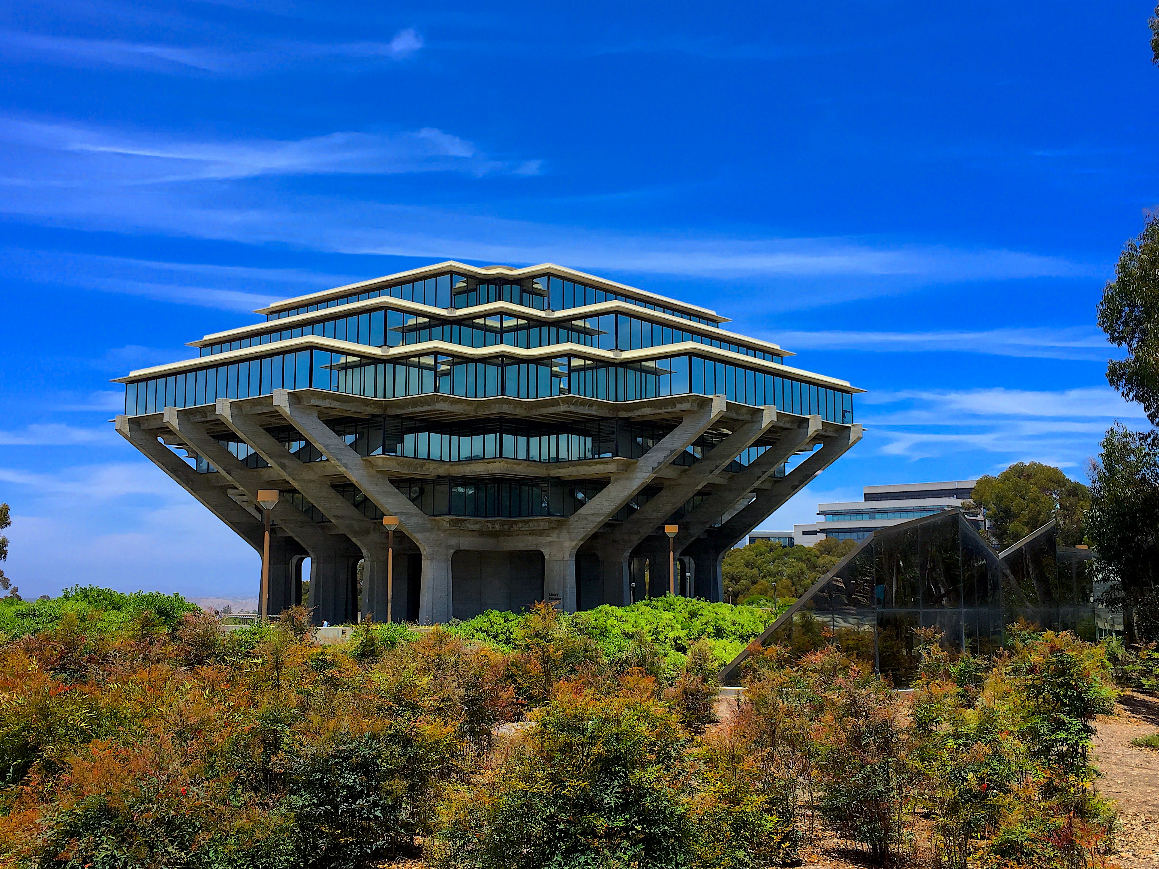 The Geisel Library in UCSD.